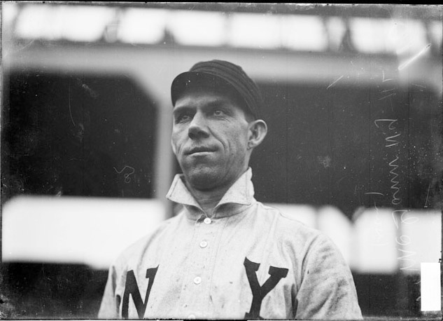 [New York Giants first baseman Dan McGann, standing on the field at West Side Grounds]. Chicago Daily News, Inc., photographer. CREATED/PUBLISHED 1905. SUMMARY Portrait of first baseman Dan McGann, National League's New York Giants baseball player, standing on the field at West Side Grounds, which was located between West Polk Street, South Wolcott Avenue (formerly Lincoln Street), West Taylor Street, and South Wood Street, in the Near West Side community area of Chicago, Illinois. The upper deck of the grandstand is visible in the background. The New York Giants were the 1905 World Series Champions. NOTES This photonegative taken by a Chicago Daily News photographer may have been published in the newspaper. Cite as: SDN-003770, Chicago Daily News negatives collection, Chicago History Museum. SUBJECTS McGann, Dan. New York Giants (Baseball team) National League of Professional Baseball Clubs West Side Grounds (Chicago, Ill.) Baseball players--New York (State)--New York--1900-1909. Near West Side (Chicago, Ill.)--1900-1909. Chicago (Ill.)--1900-1909. Portraits. Dry plate negatives. Gelatin dry plate negatives. United States--Illinois--Cook County--Chicago. MEDIUM 1 negative : b&w, glass ; 5 x 7 in. REPRODUCTION NUMBER SDN-003770 REPOSITORY Chicago History Museum, 1601 North Clark Street, Chicago, IL 60614-6038. DIGITAL ID (original negative) ichicdn s003770